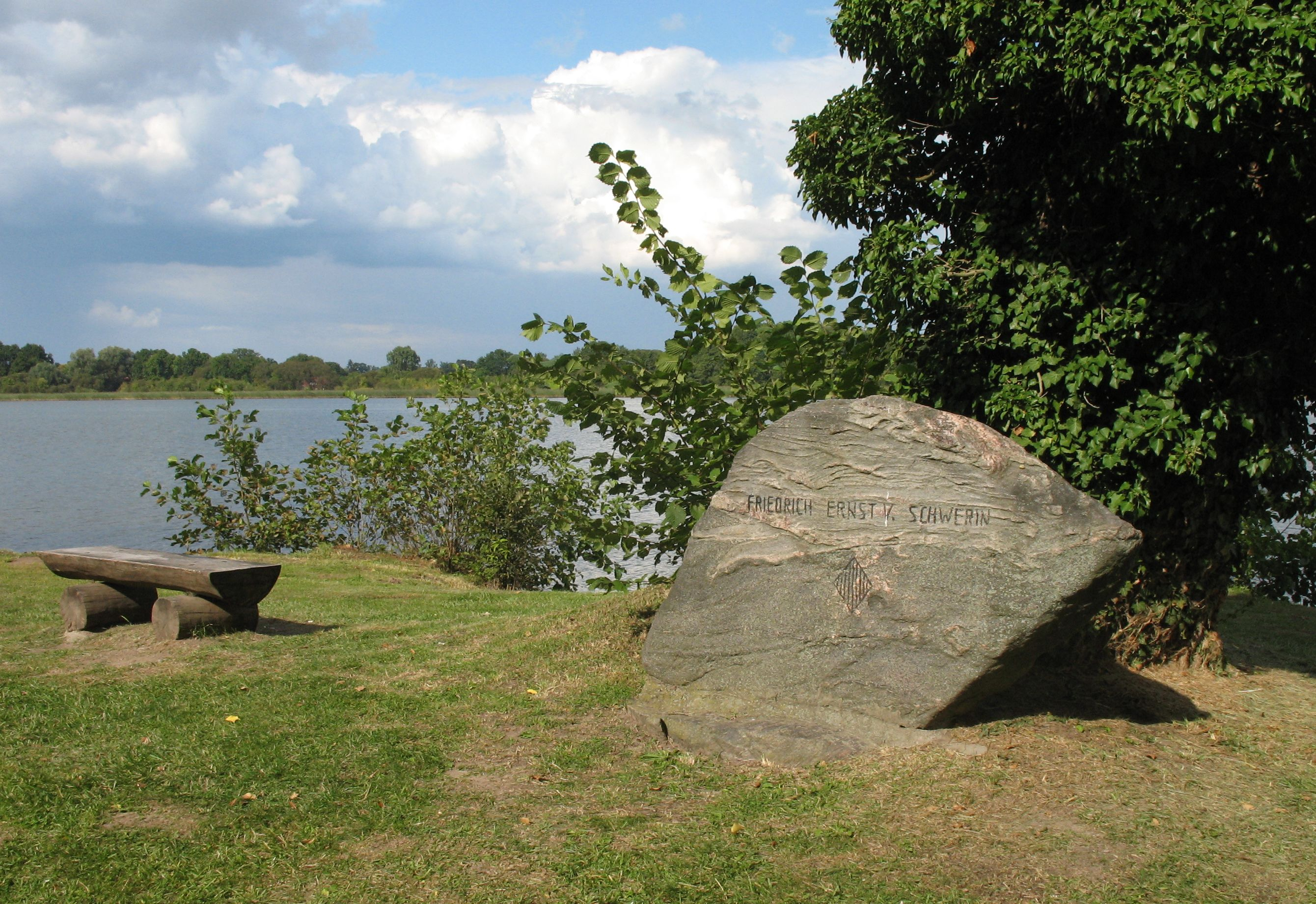 Memorial stone to Friedrich Ernst von Schwerin in Fehrbellin-Wustrau in Brandenburg, Germany